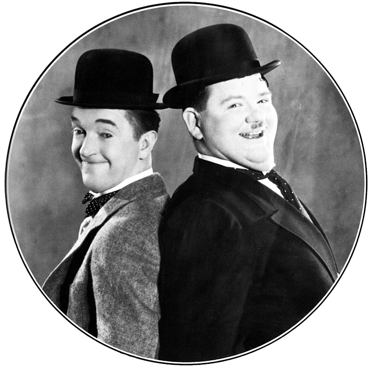 Publicity photo of Stan Laurel and Oliver Hardy.